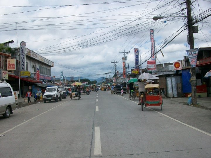 Barangay Maranding is a commercial area in Lala, Lanao del Norte with 12,596 people living there last 2010.